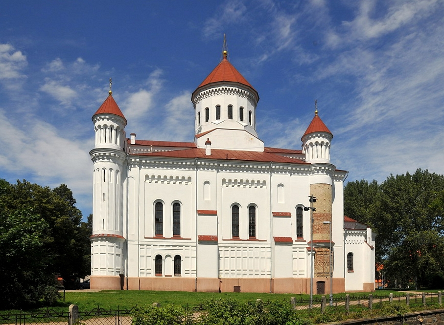 On Maironio Street you can see the Orthodox Cathedral of Holy Mother of God. The first church was built in 1415 and rebuilt in stone in XVI century. In 1609 the church was given to Uniate order but since XIX century it is Orthodox again. The present view was given to the cathedral in the last reconstruction, made by Ryazanov and Chagin architects.